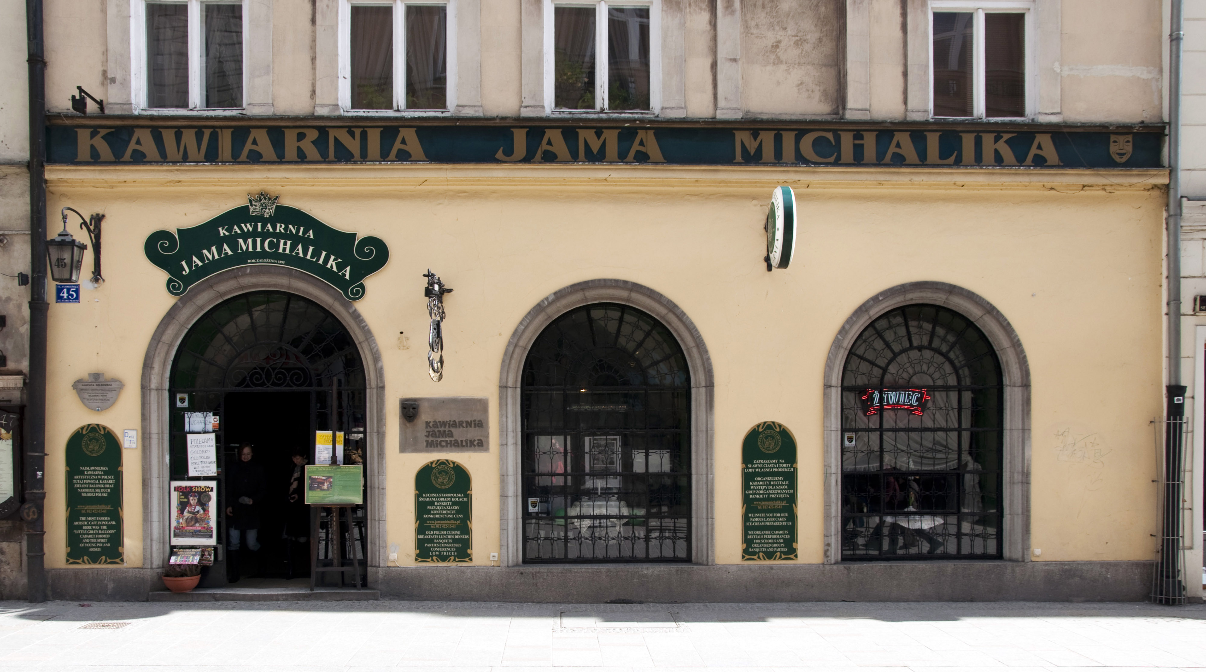 Kawiarnia Jama Michalika